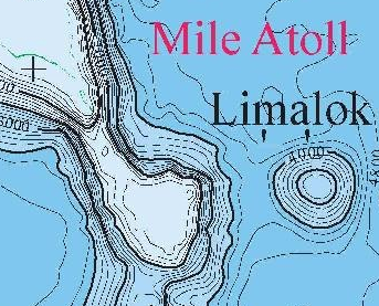 A bathymetric map of seamounts and islands in Micronesia and the Marshall IslandsTagalog: Inilalarawan nito ang mapa ng Micronesia at mga isla ng Marshall